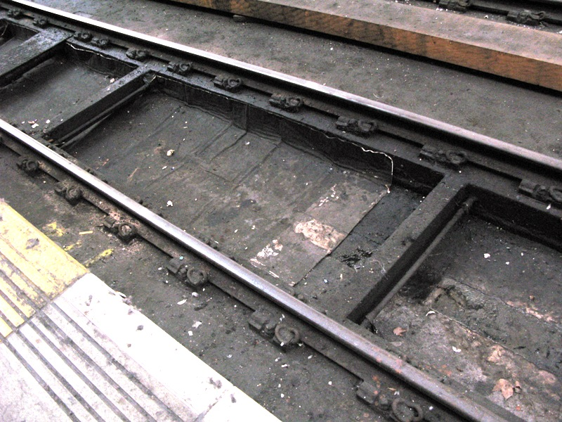 Modern abulk road using flat bottomed rail and baseplates in Platform 1, London Paddington station, England. This form of track construction is similar to that first used at Paddington for the Great Western Railway's broad gauge lines in 1838, but uses modern materials to allow for easy drainage of the track.